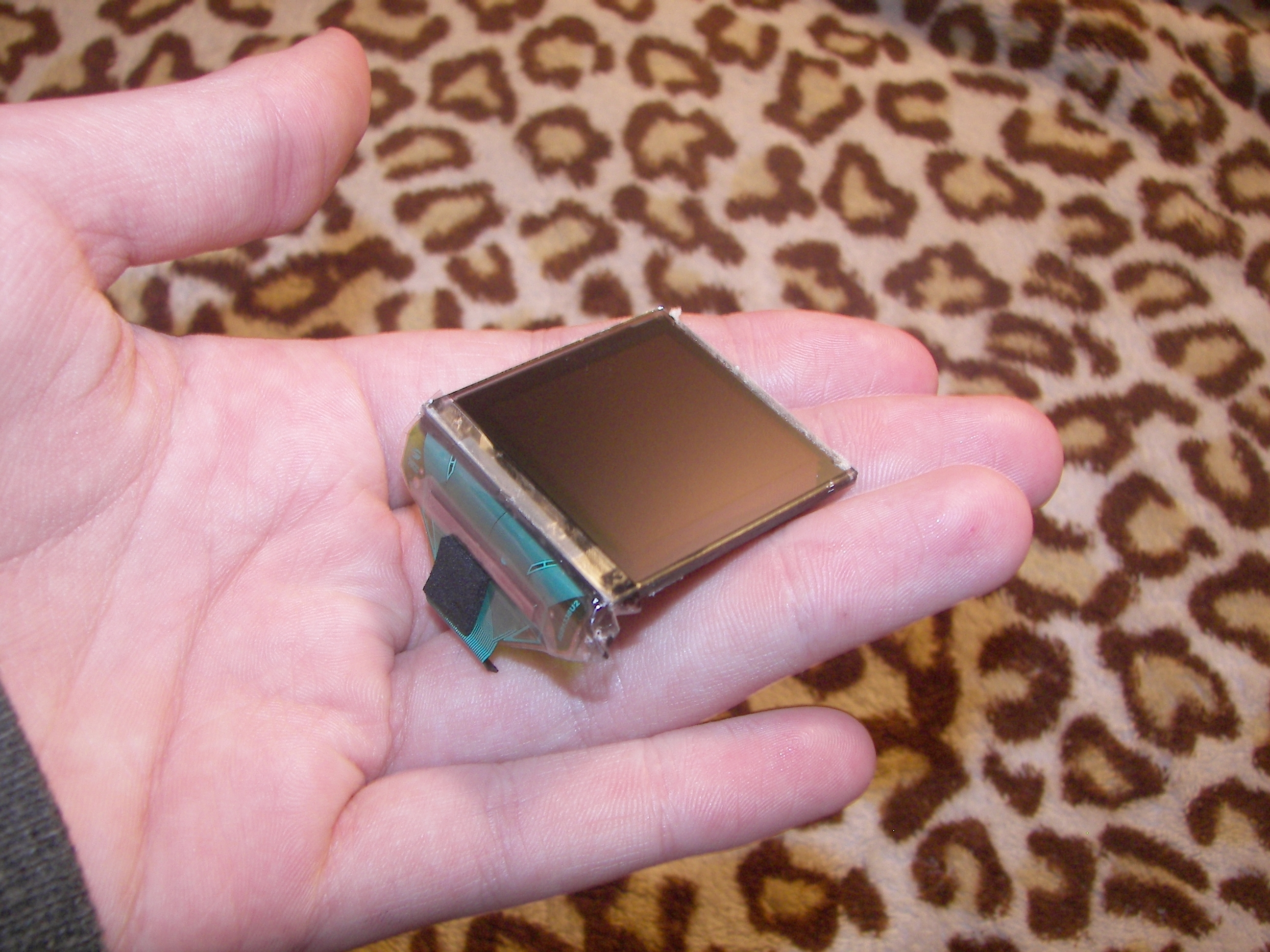 An OLED Screen from a Creative Zen V Plus.